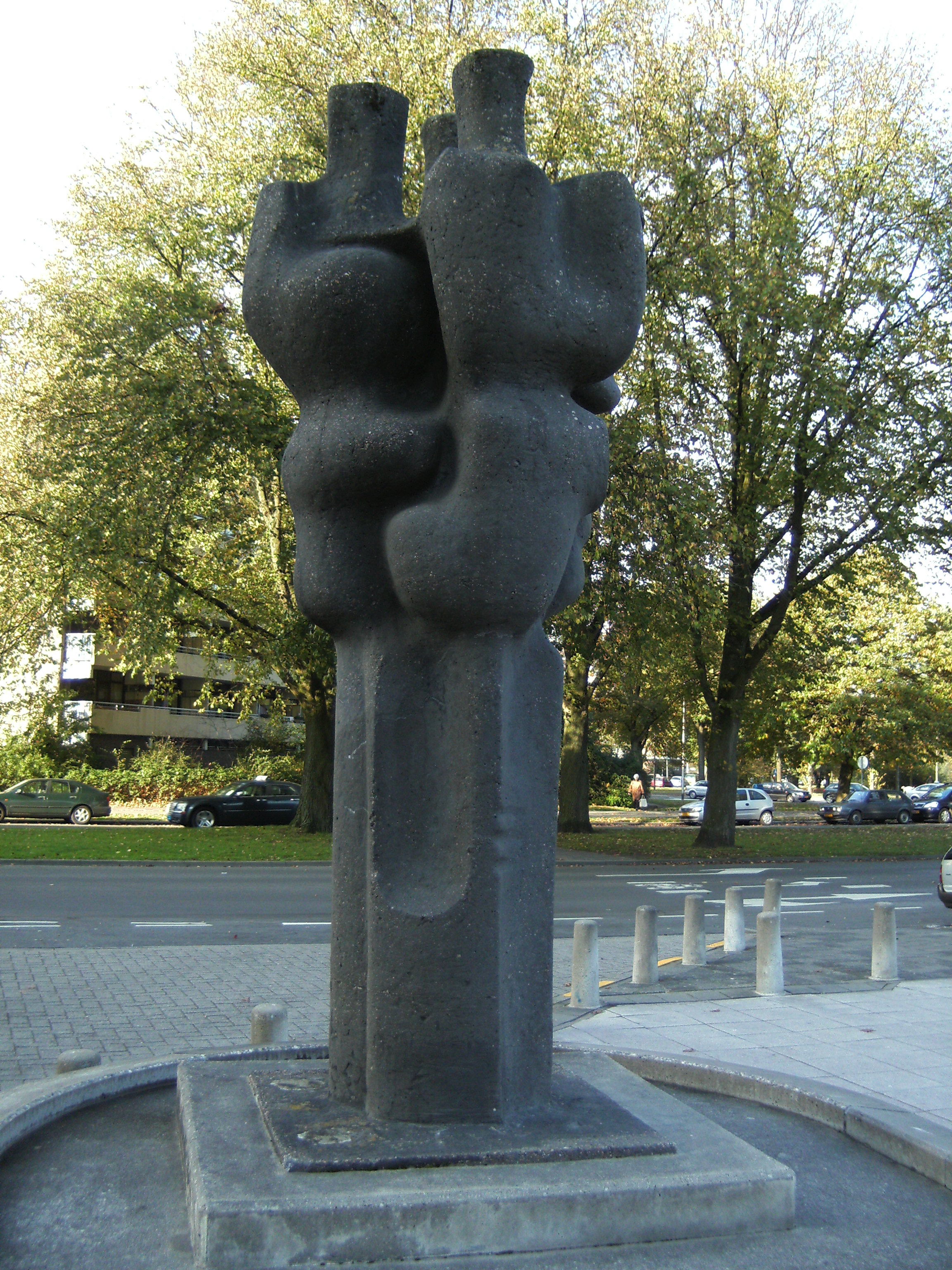 'Vrouwen' (Women) by Cor Dam 1968.